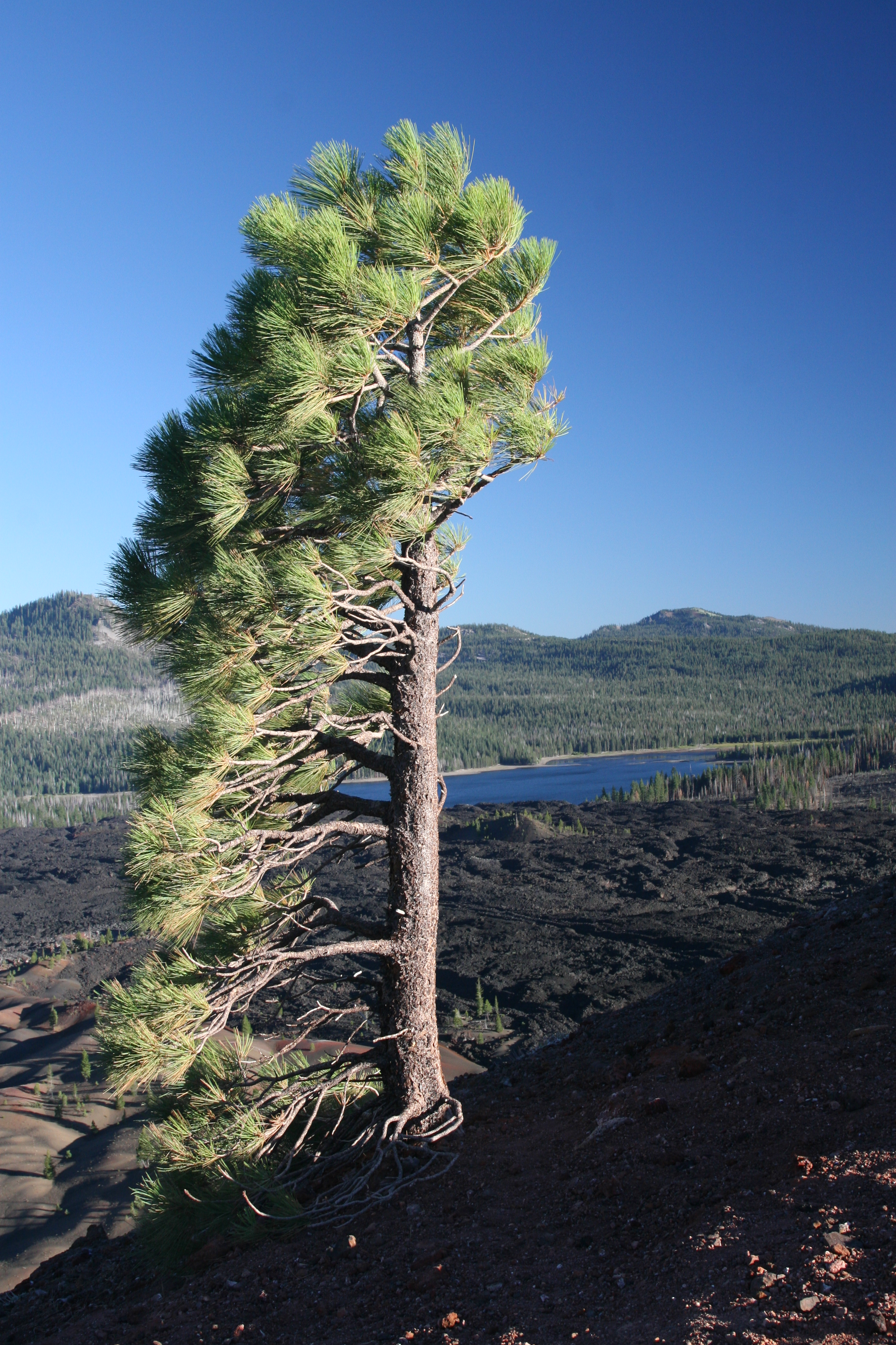 Pinus jeffreyi yuong tree. Cinder Cone, Lassen Volcanic National Park, California 40°32'51"N 121°19'14"W, 2050m altitude.